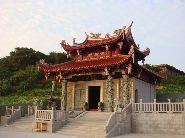 Tianao Matsu Temple, Xiju, Matsu, Taiwan